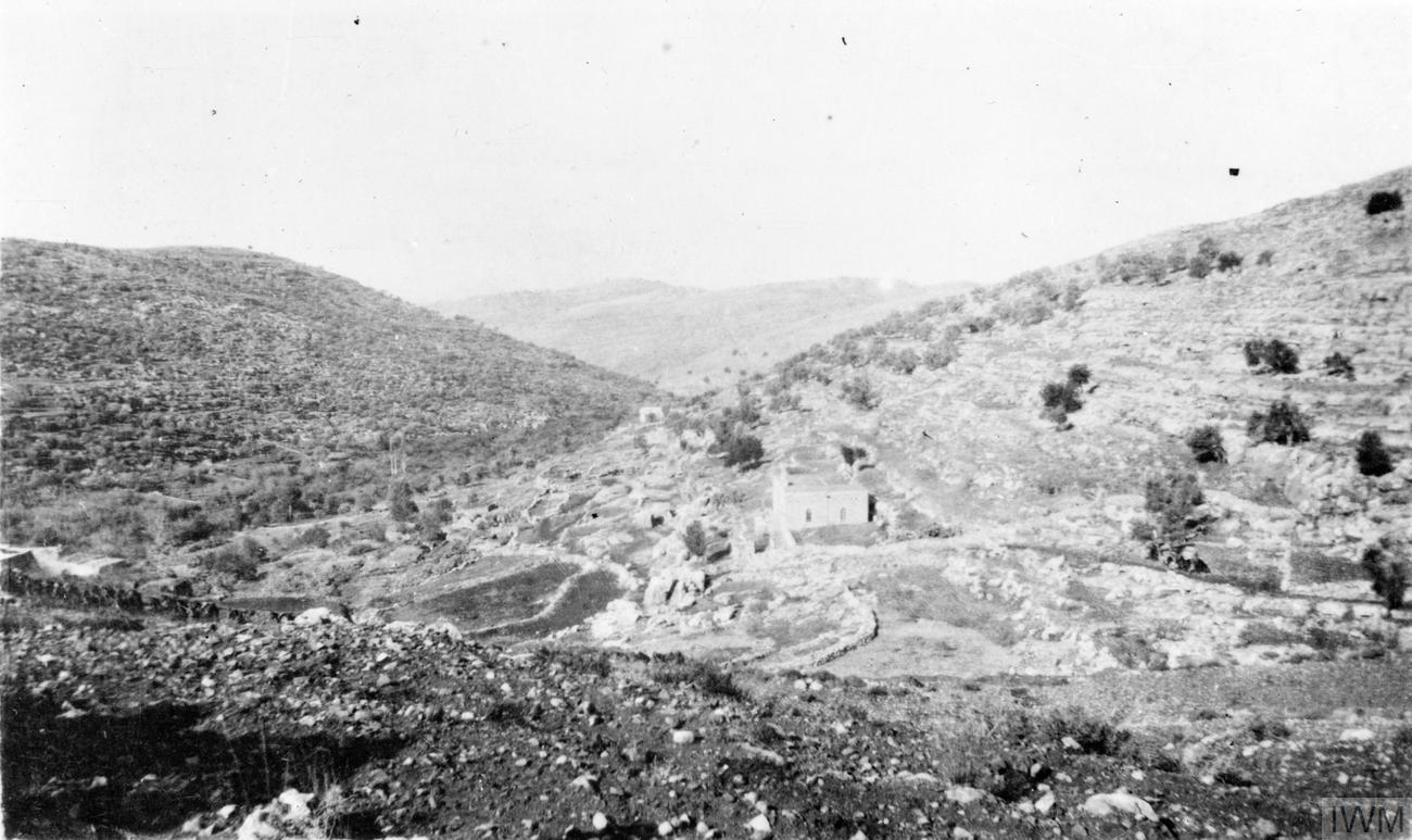 Judean Hills.